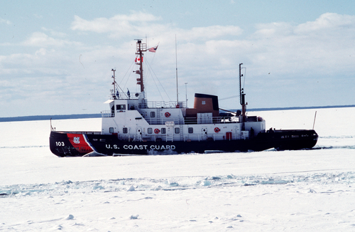 USCGC Mobile Bay: Coast Guard Cutter Mobile Bay (WTGB 103) breaks ice in the Straits of Mackinaw on the Great Lakes.